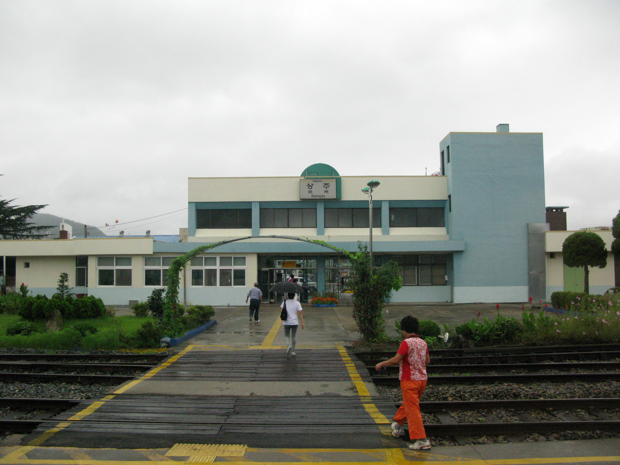 Gyeongbuk Line Sangju Station